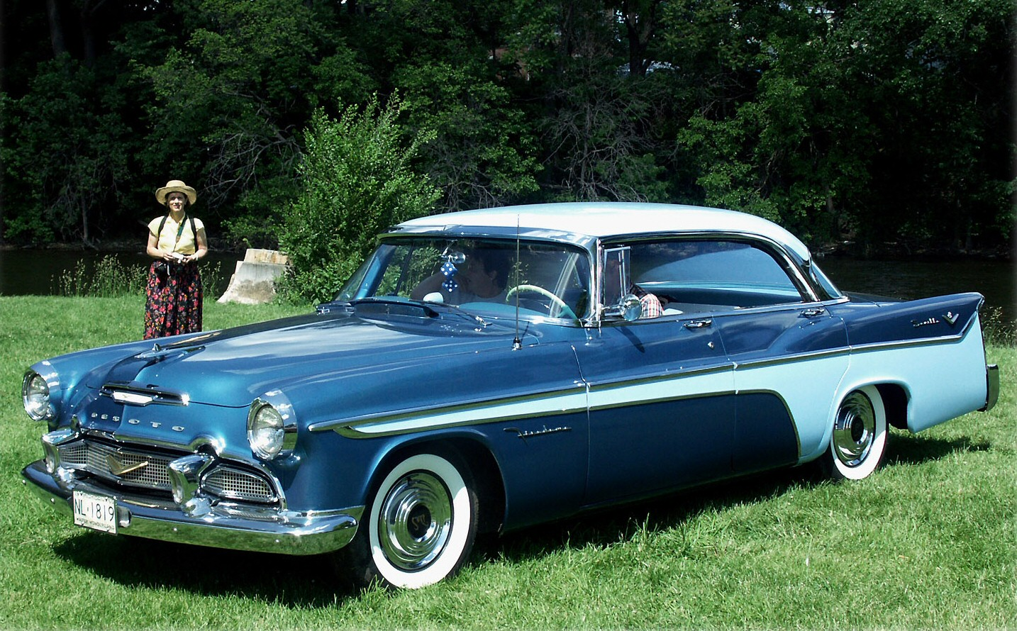 1956 Desoto Firedome Seville 4-door hardtop2006 Orphan Car Show in Riverside Park at Ypsilanti, Michigan